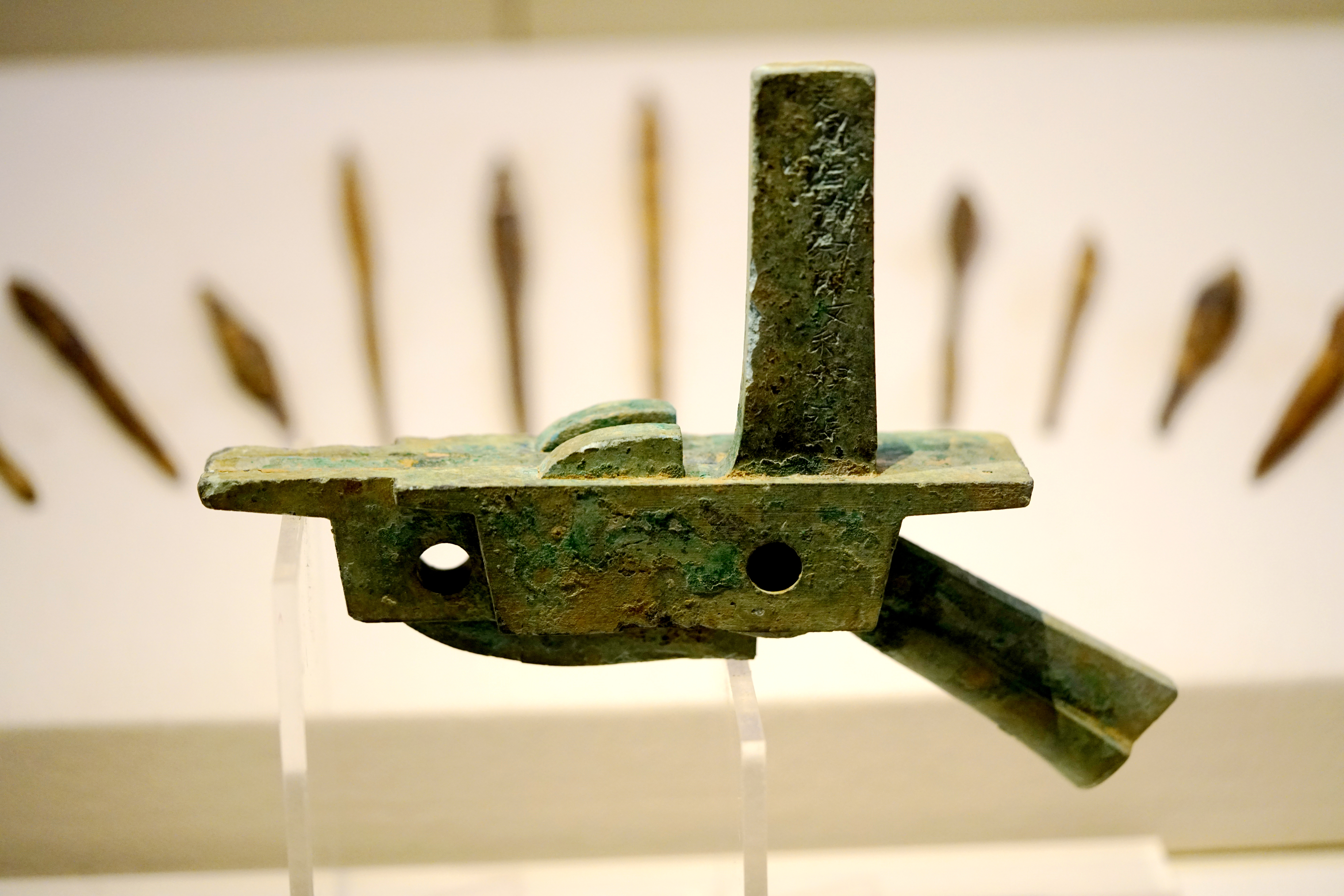 Crossbow with inscriptions